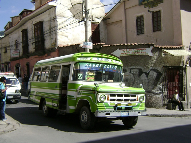 A mini-bus, called "Micro", La Paz (Bolivia).